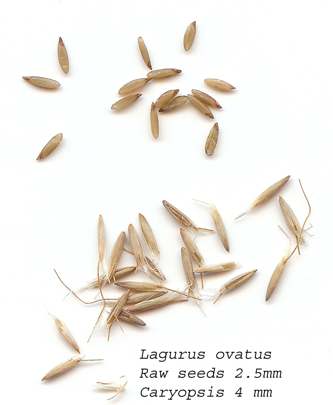 Self made scan of the seeds of Lagurus ovatus, made 01/2008.